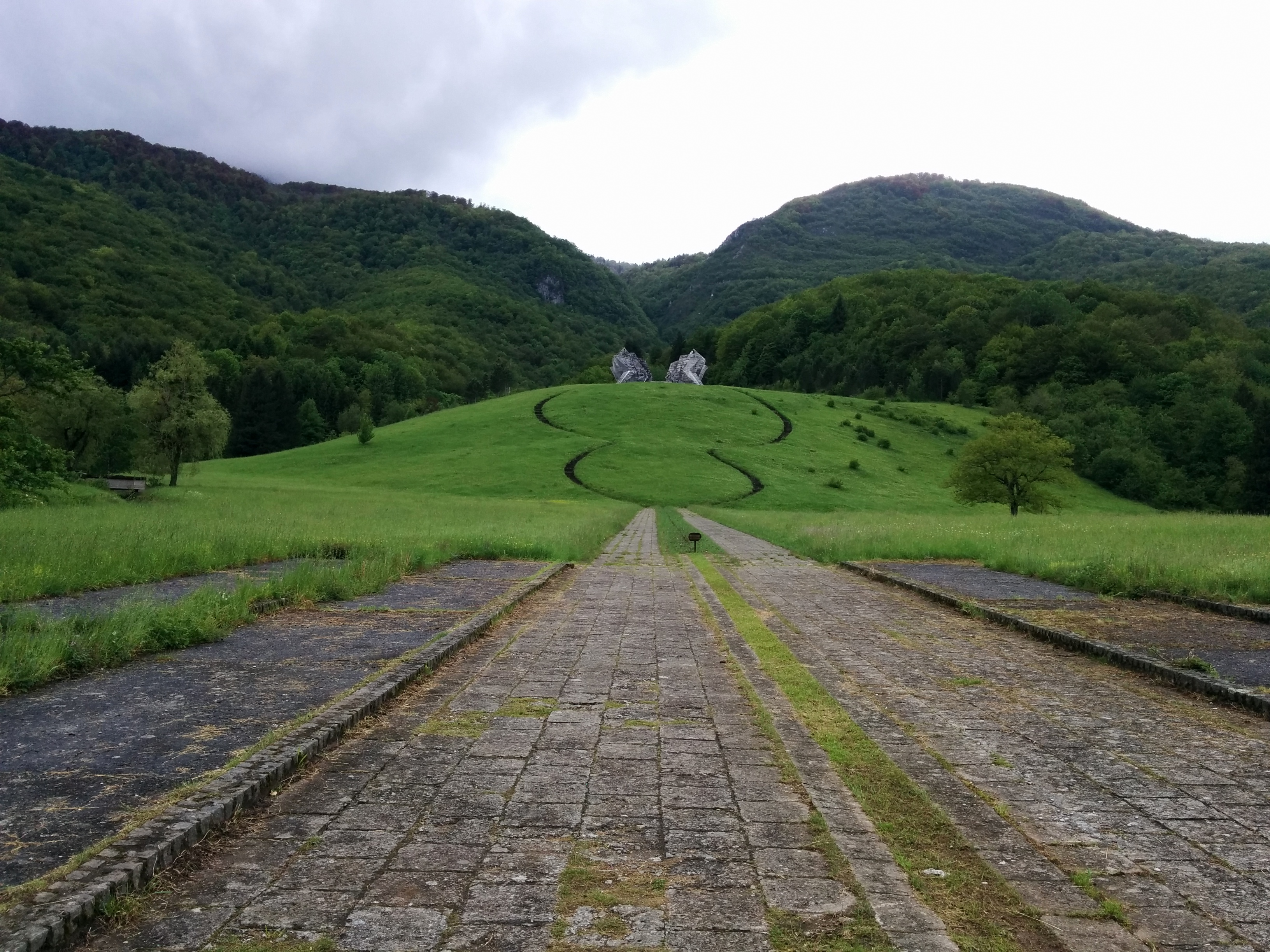 This image was uploaded as part of Trace of Soul 2016.